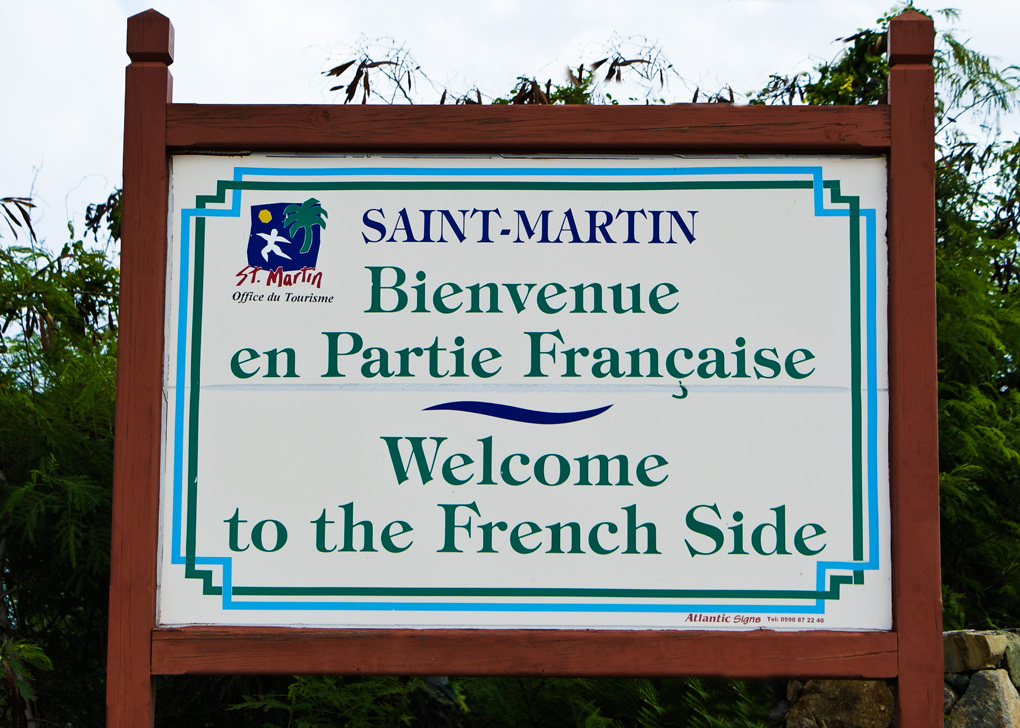 Sign welcoming tourist to the French side of the island